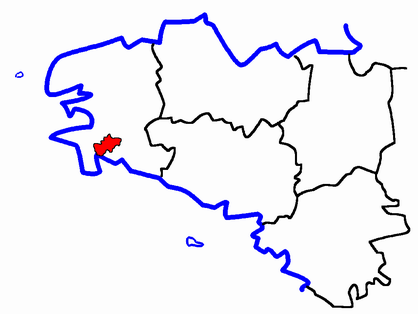 Description: Map for localisazion of cantons of Bretagne region in France Source: made by Hervé Tigier in april 2005 from another large map (published in 1990)